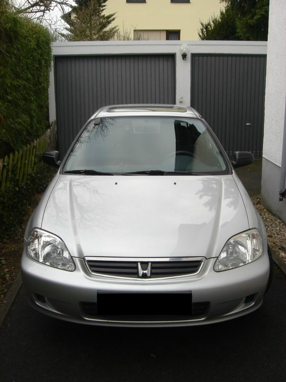 Stock Honda Civic EK1